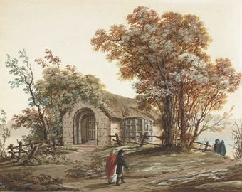 The Abbey on Inisfallen Island, Killarney, Co. Kerry